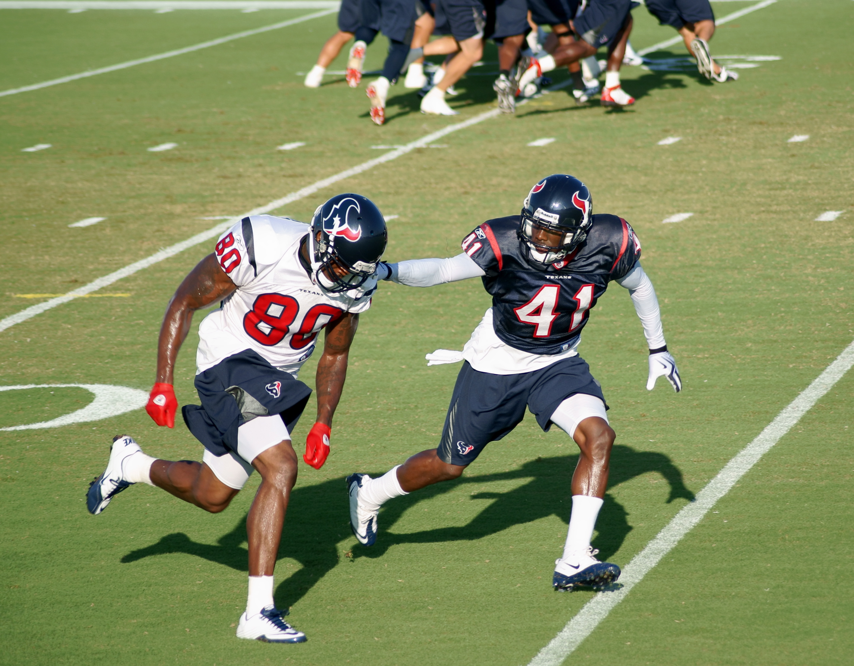 Andre Johnson of the Houston Texans